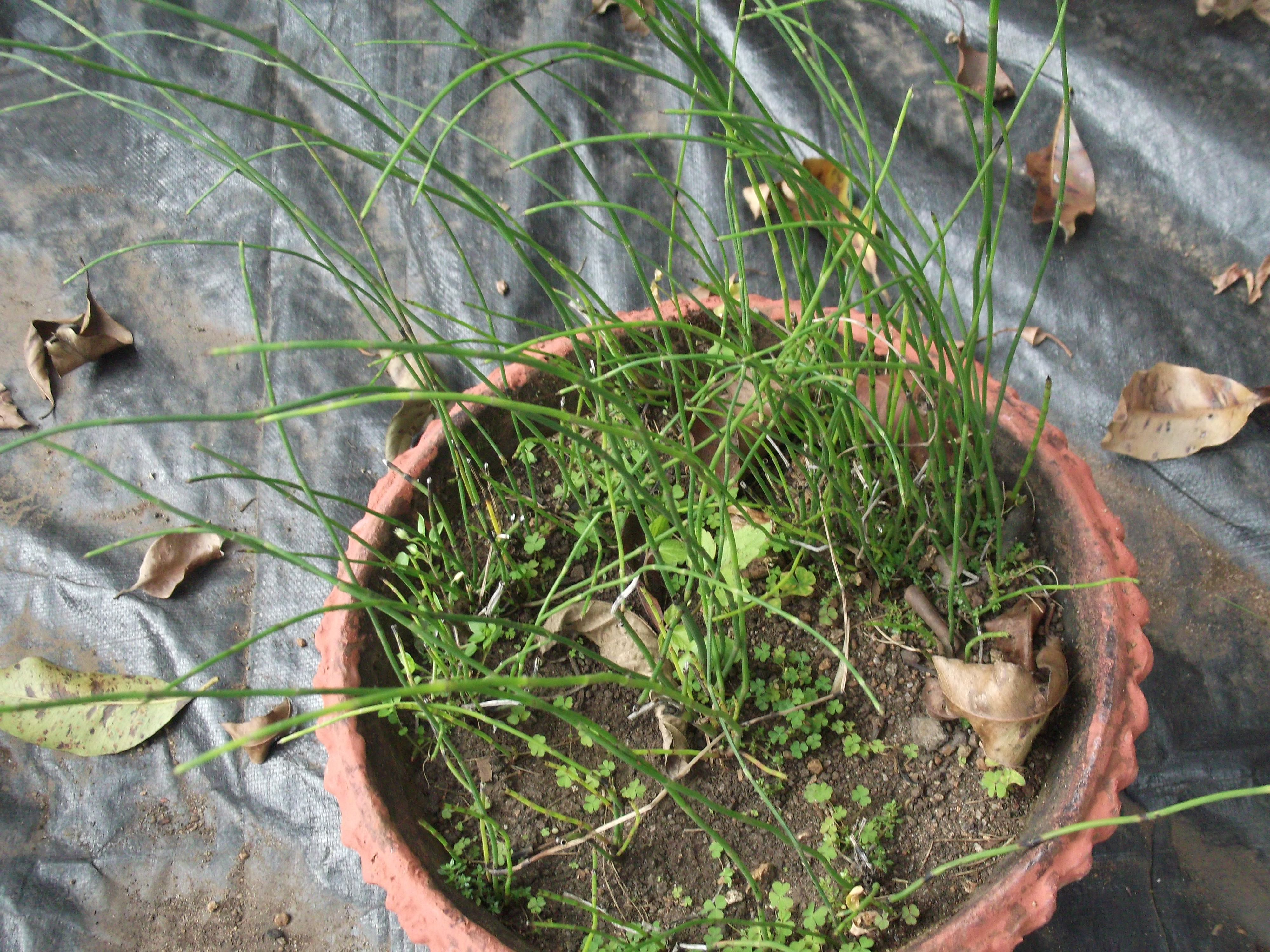 Herbaceous perennial plant,sterile stem,jointed segments.